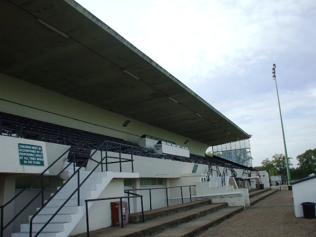 Richmond rugby clubThe one and only stand at Richmond, home to Richmond and London Scottish RFC. Also known as Richmond athletic ground.